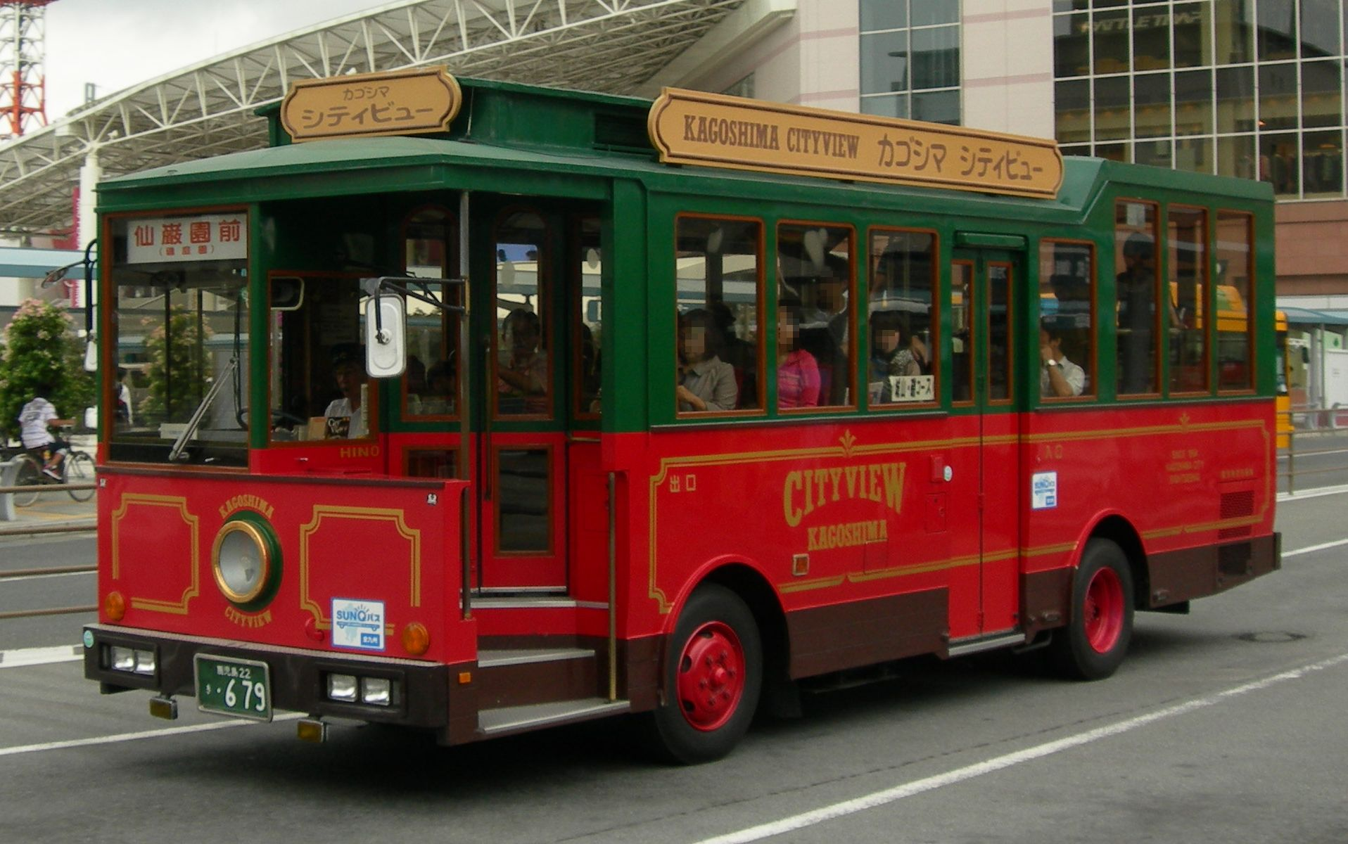 Kagoshima City Transportation Bureau Bus 鹿児島市交通局 カゴシマシティビュー